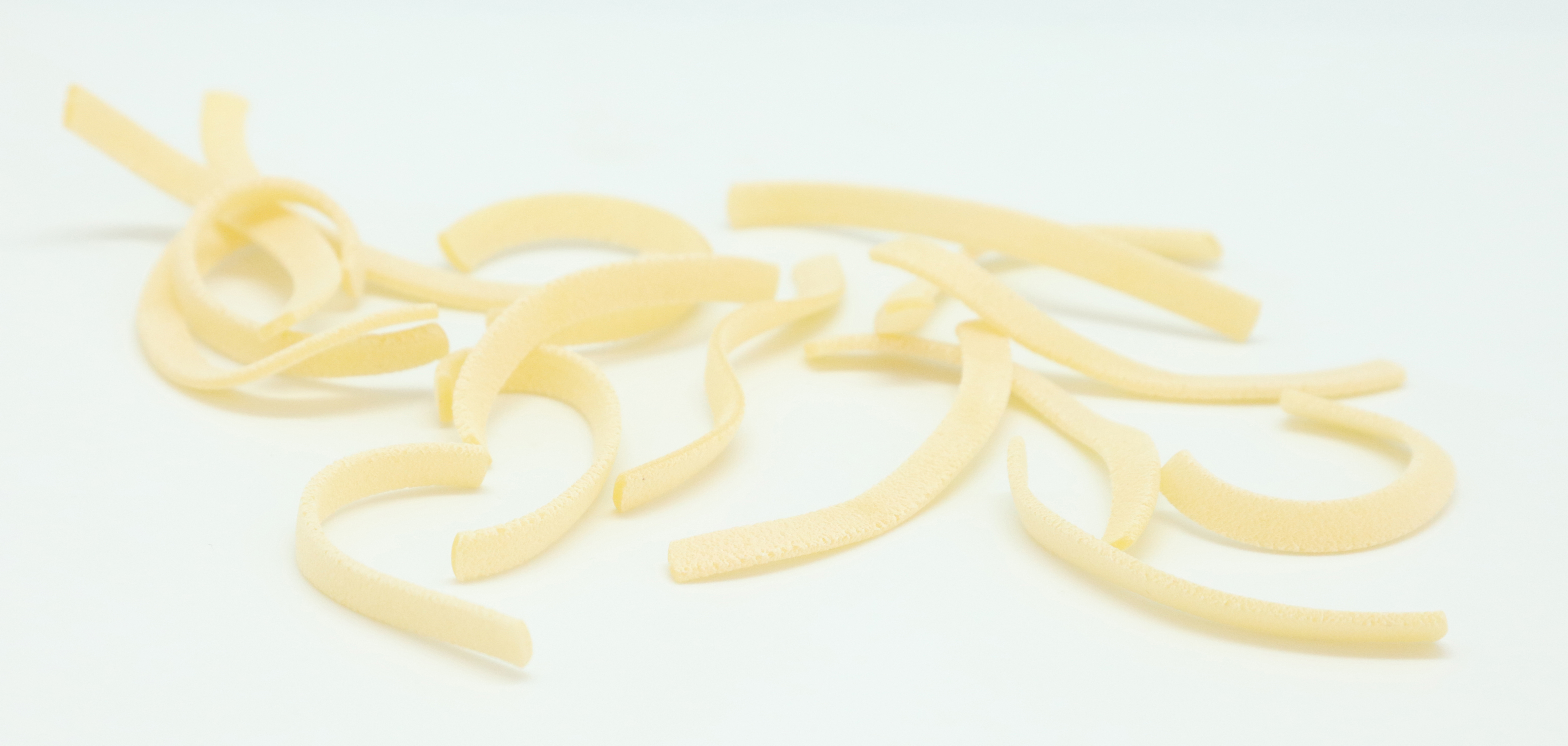 Scialatielli pasta, from Sorrento